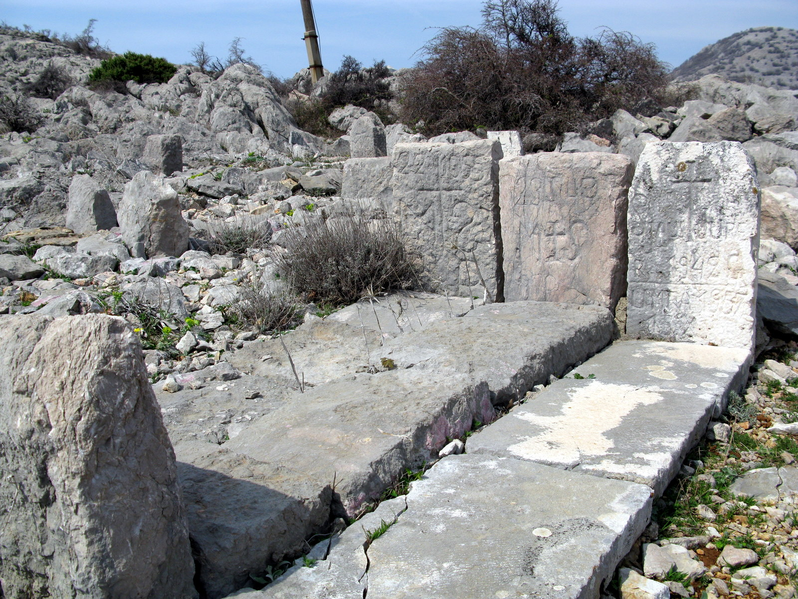 Mirila above Tribanj Kruščica at the Adriatic Highway near Starigrad in the Velebit mountain range in Croatia / Balkans / southeastern Europe. A Mirila used to temporarily relax the dead better the undertaker on the way from the outlying farms in the Croatian karst to the cemetery in the valley. It was the place from which the dead have seen the sun for the last time.